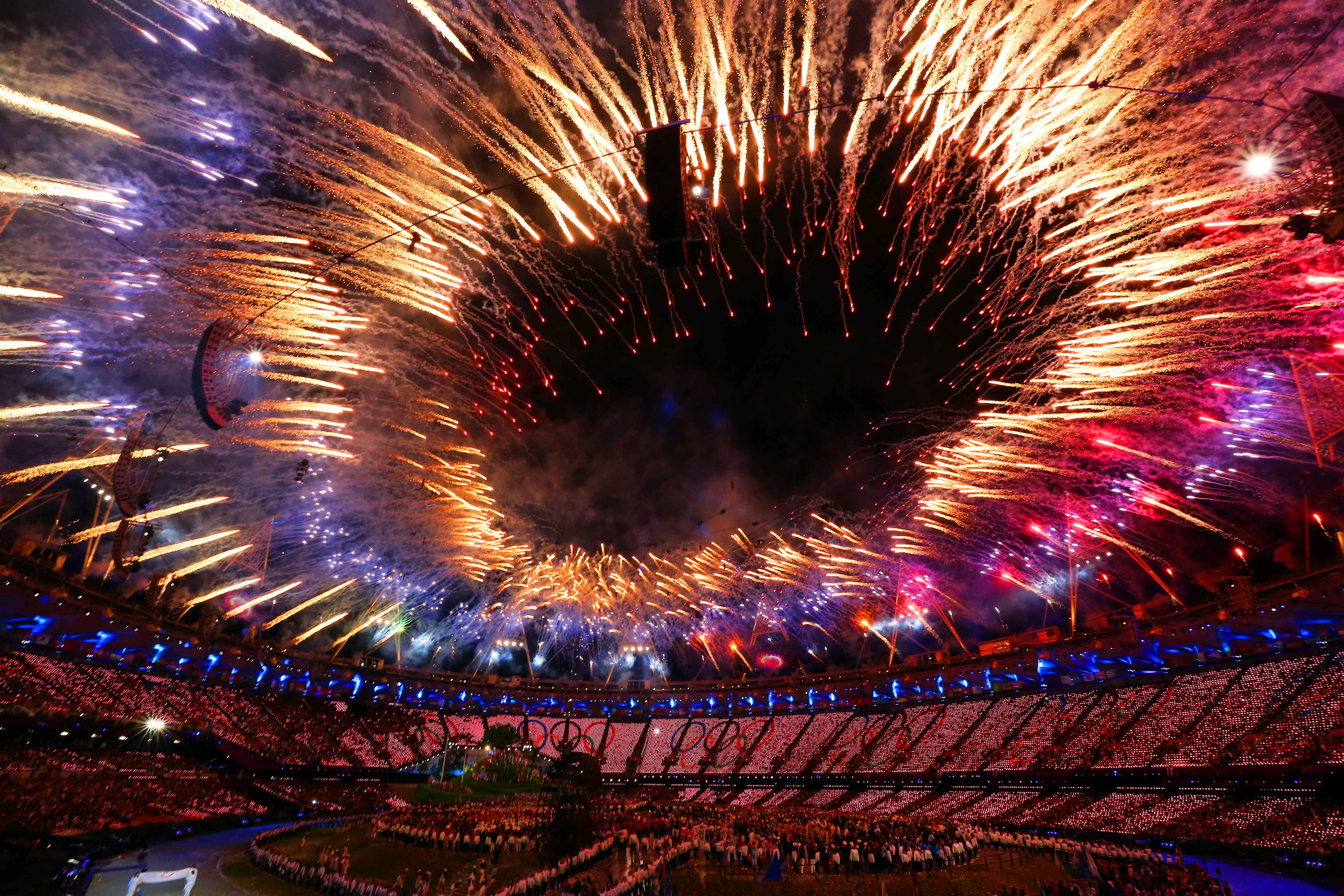 2012 London Olympic Games Opening Ceremony Team Korea 2012.7.29. Photo by Korean Olympic Committee Ministry of Culture, Sports and Tourism Korean Culture and Information Service 2012 런던 올림픽 개막식 행사 한국대표팀 입장 사진제공 - 대한체육회 문화체육관광부 해외문화홍보원